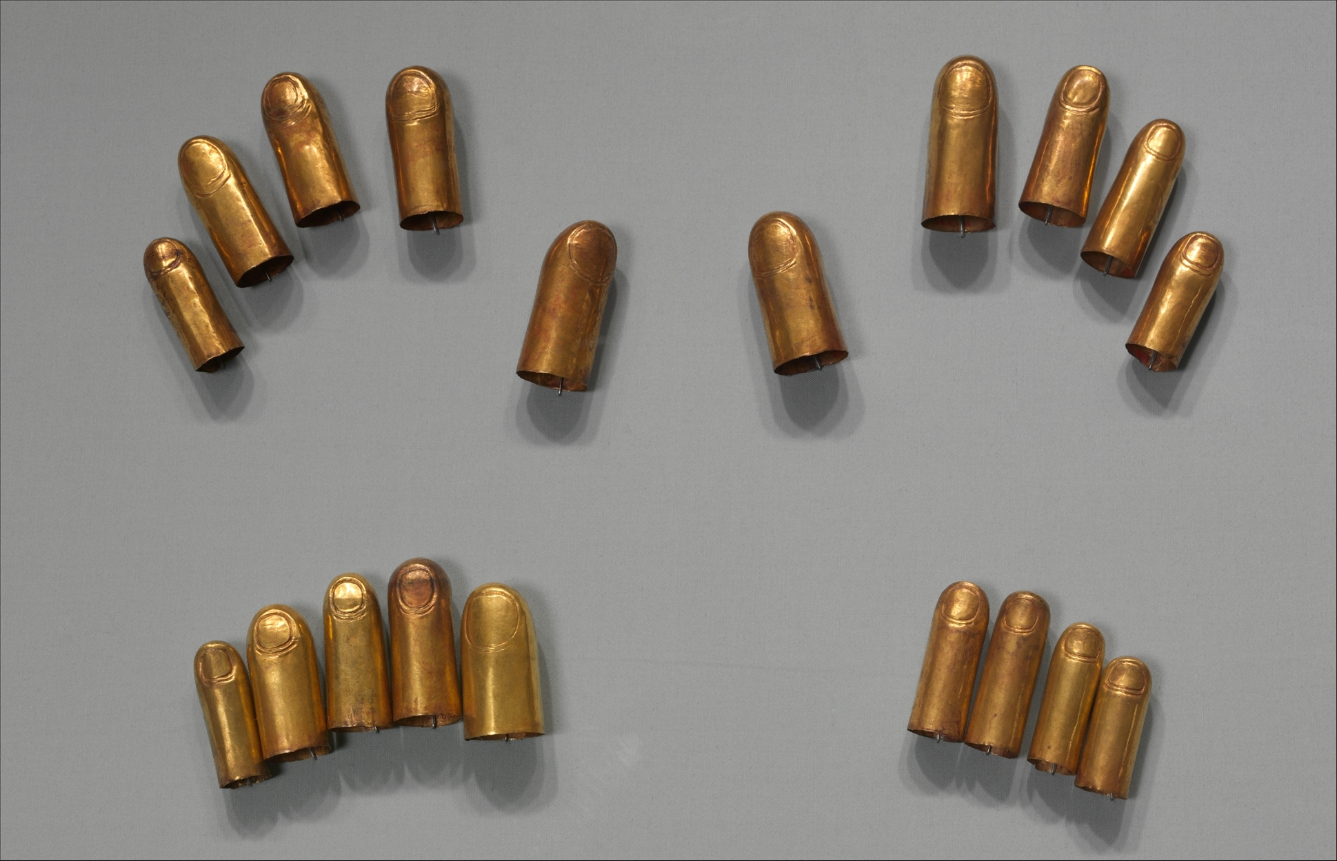 Finger stall, Group 2